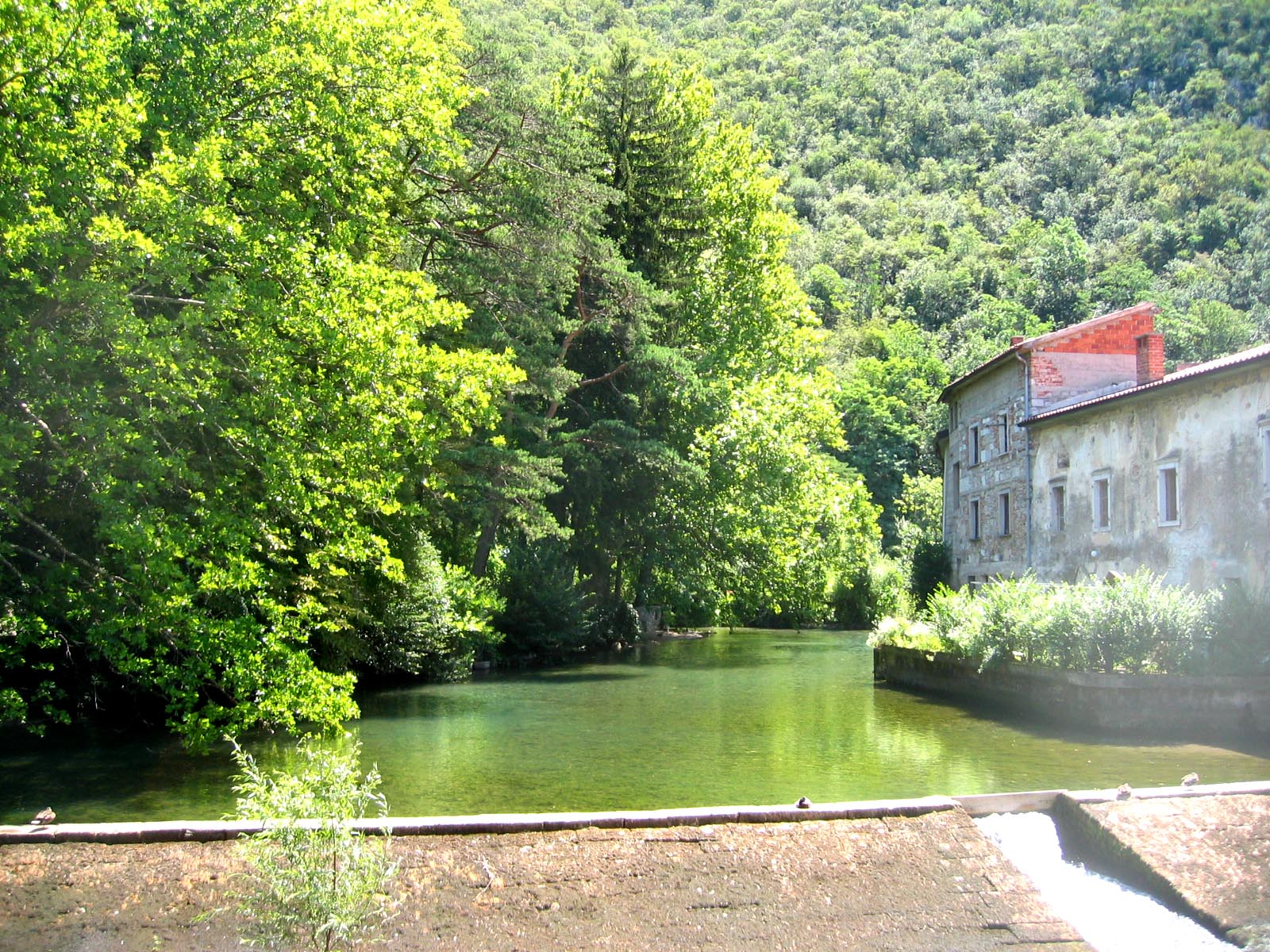 Karst spring of river Vipava, Slovenia.